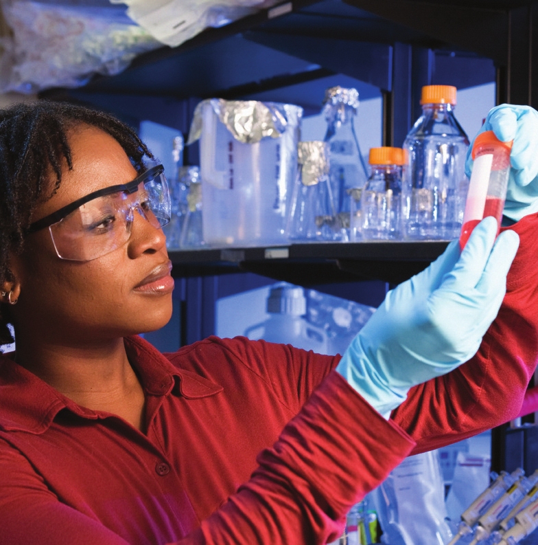 Omolola (“Lola”) Eniola-Adefeso, a chemical engineer at the University of Michigan in Ann Arbor, is developing a way to deliver heart disease medicines right to the places they’re needed—the blood vessels near the heart—and to do so without surgery.